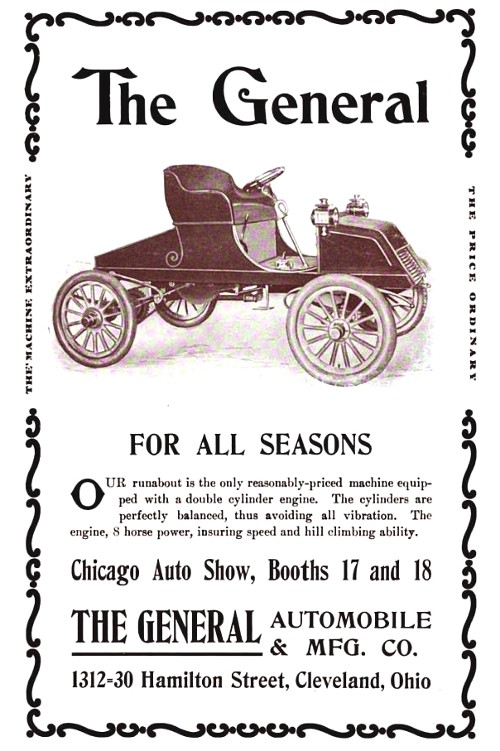 Copy of a 1903 General Automobile & Manufacturing Company Car Ad that was published in 1903. General automobiles 1903 automobiles 1903 automobile advertisements 1903 advertisements in the United States